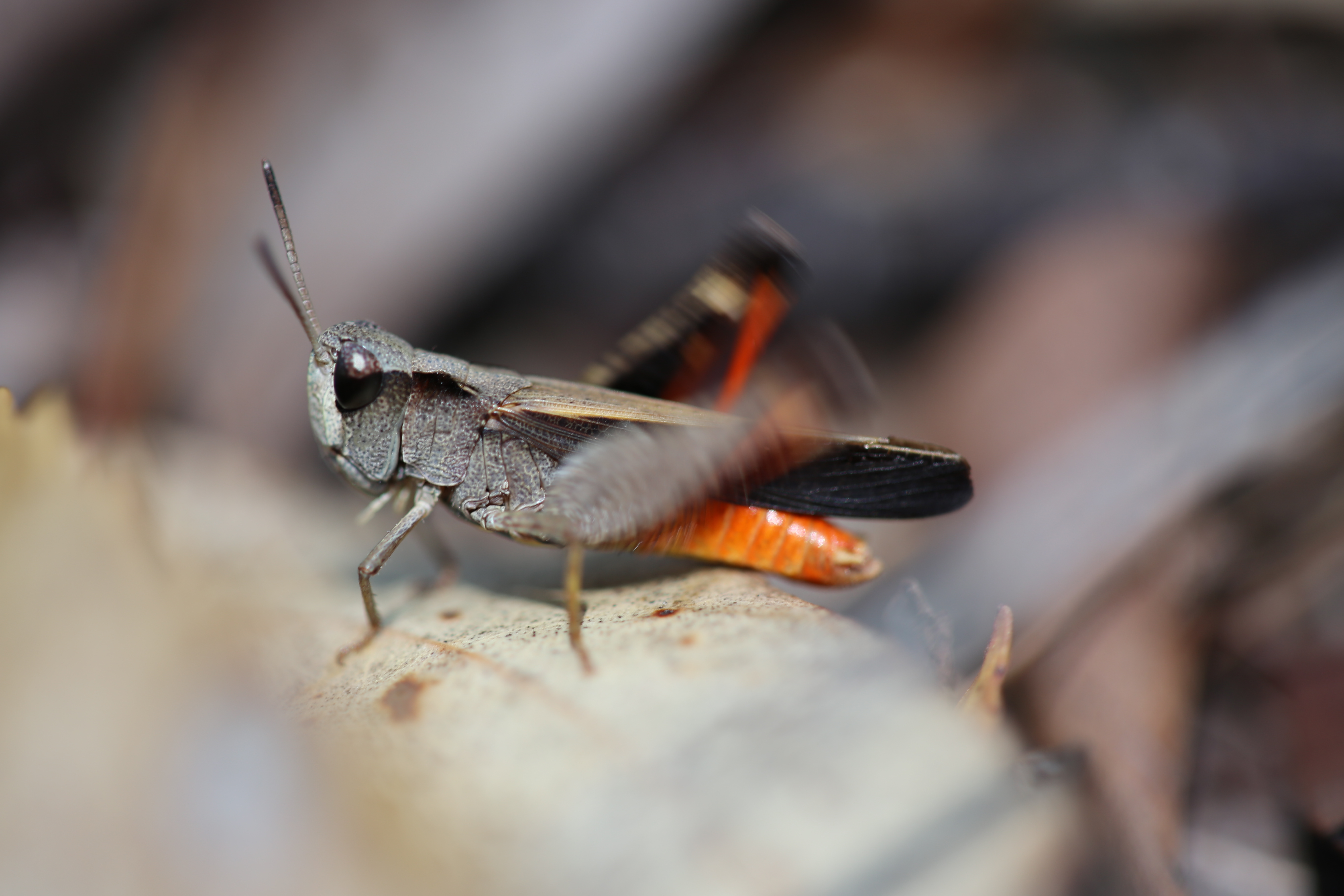 Cryptobothrus chrysophorus male (singing)